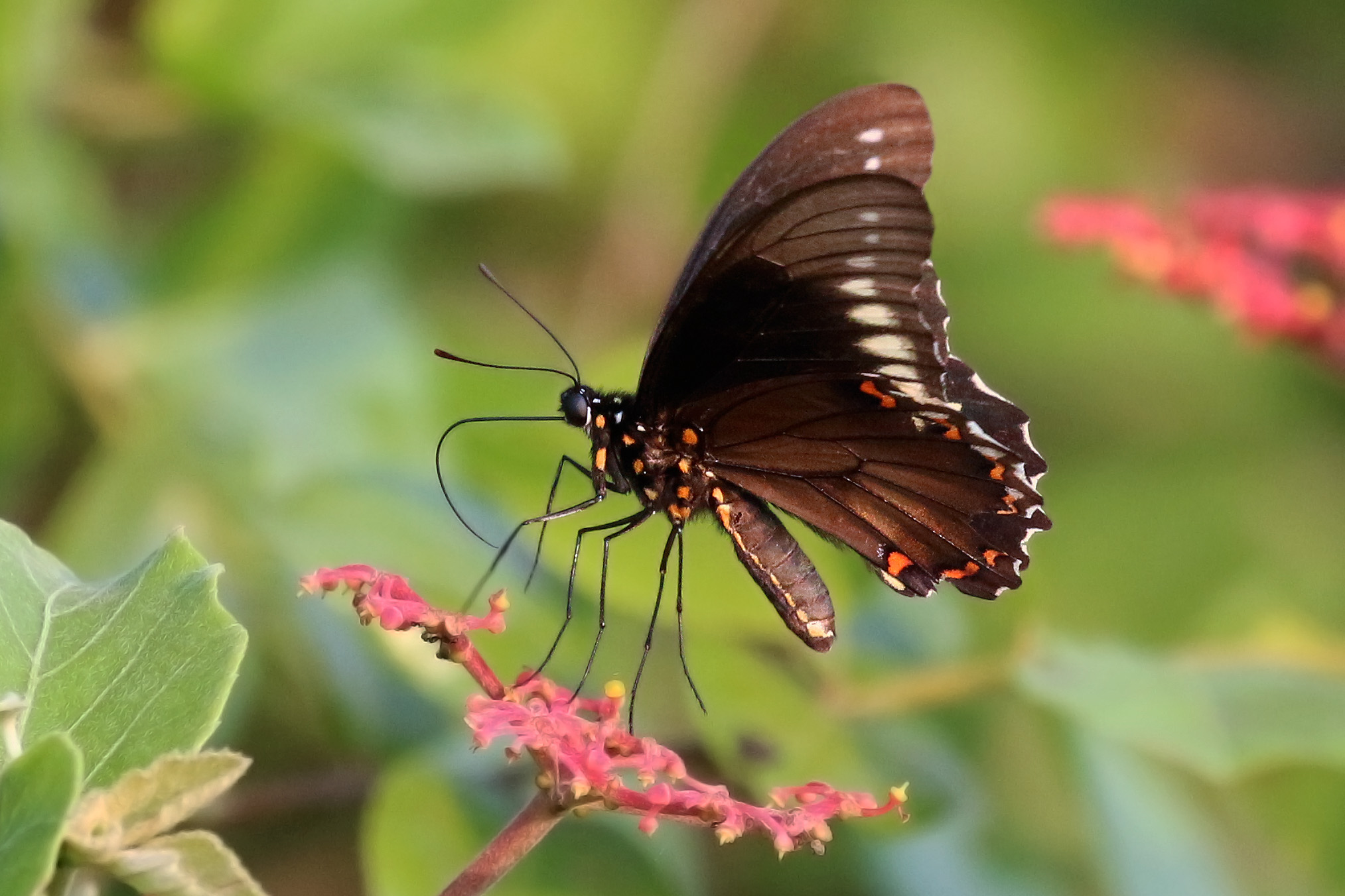 Polydamas, or gold-rim, swallowtail (Battus polydamas polydamas), the Pantanal, Brazil